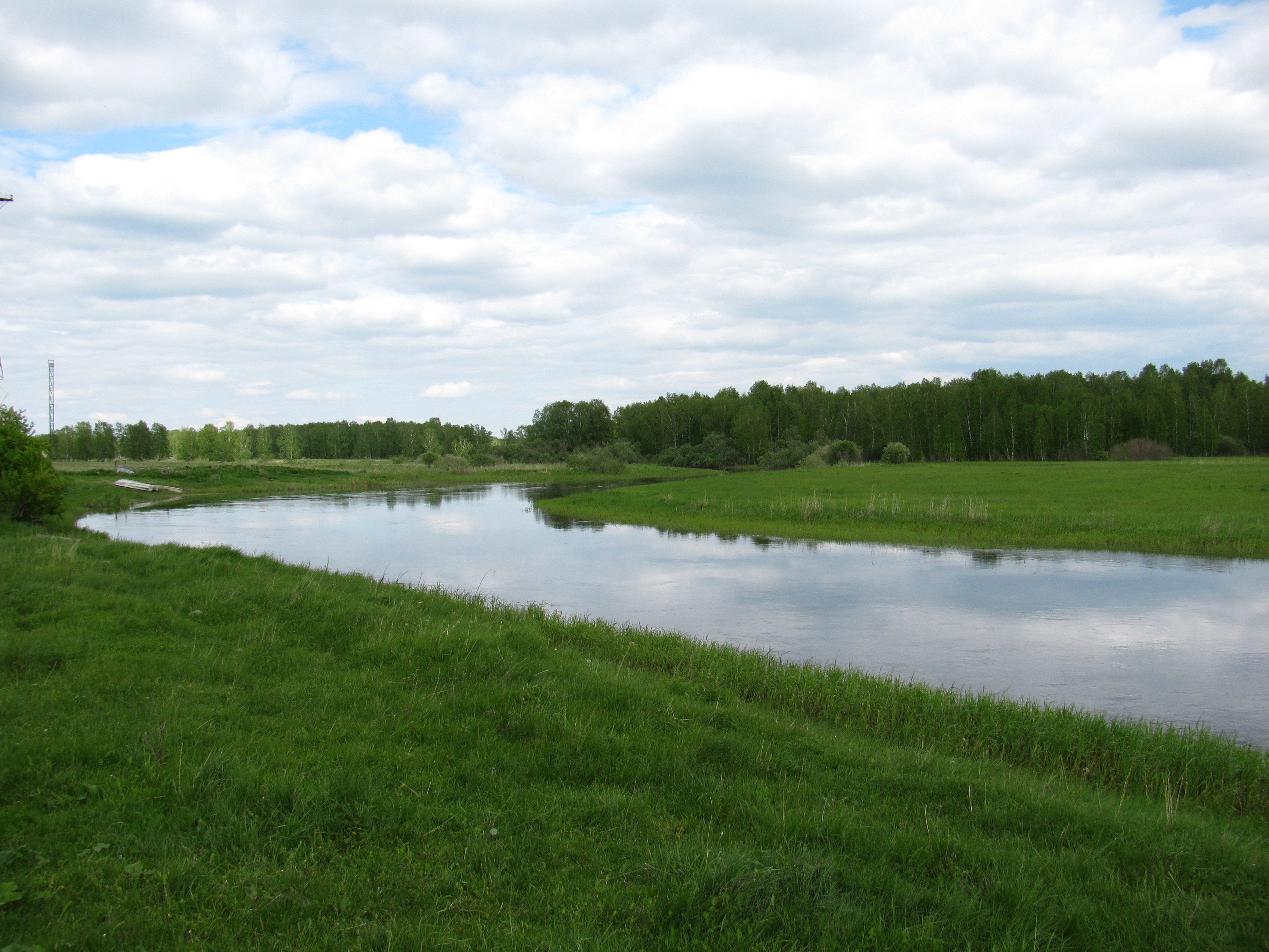 Icha river 2015, Novosibirsk oblast. Severny District, Sredneichinsky